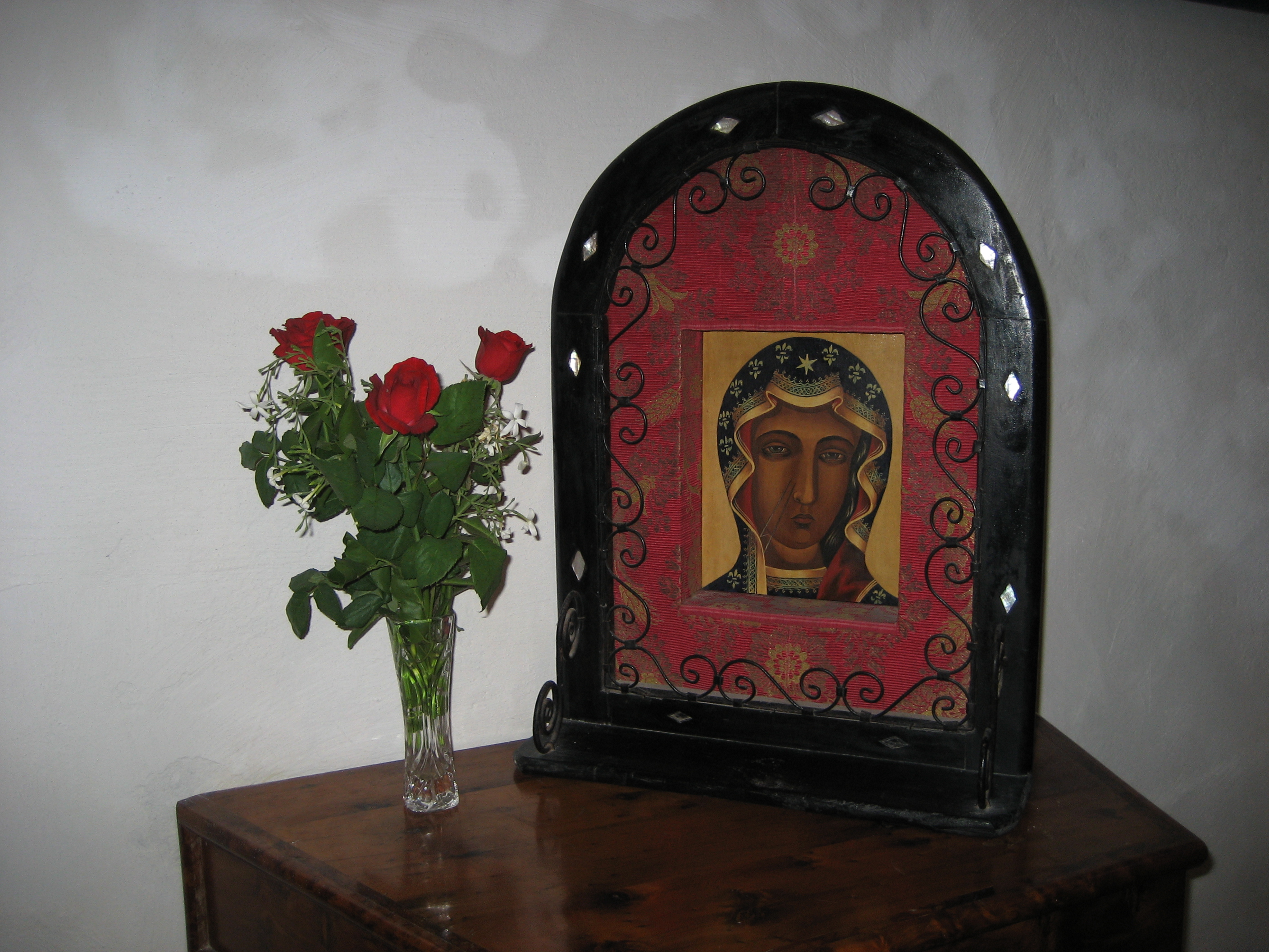 Icon of the Virgin Mary in the Notre-Dame de l' Assomption in Essaouira (Morocco)